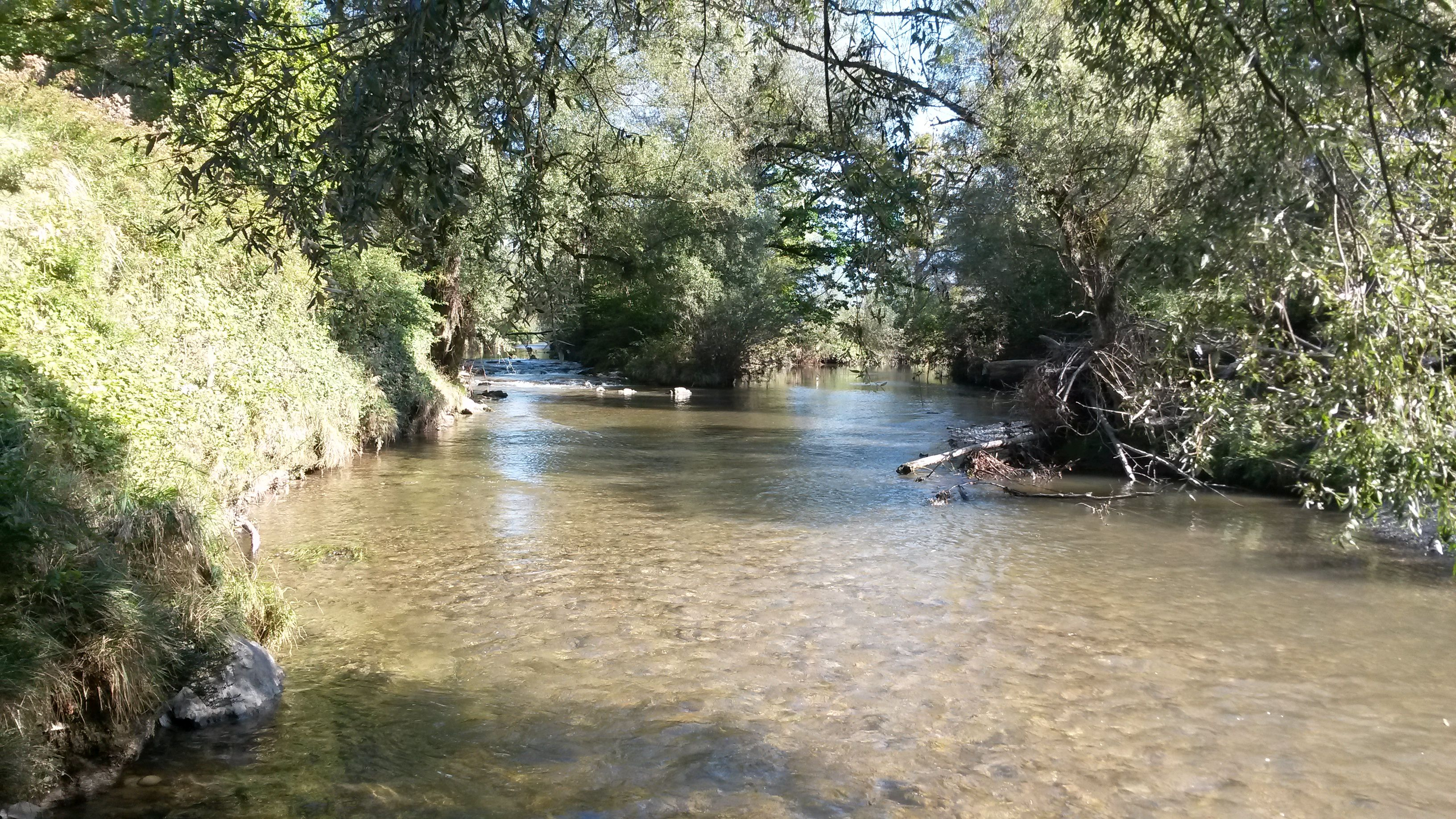 Confluence Dornbirner Ache with Schwarzach